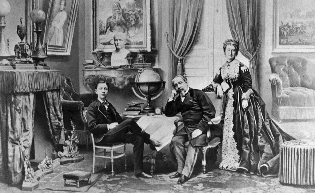 Napoleon III and the imperial family in exile.